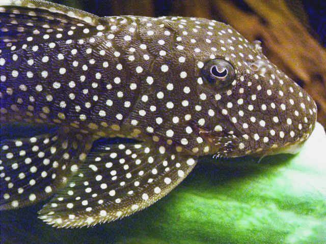 Baryancistrus xanthellus